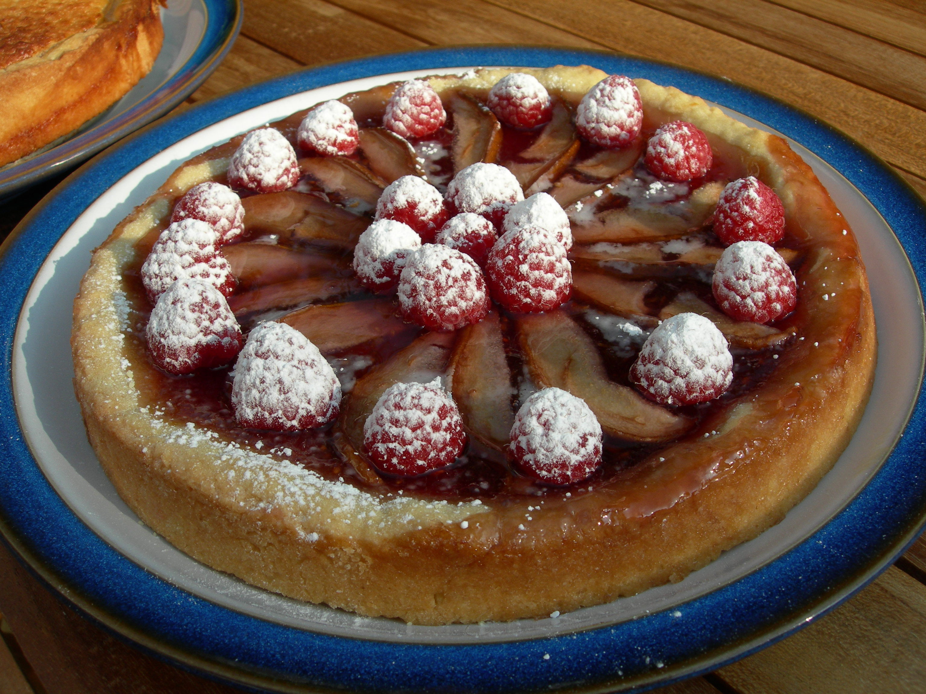 A small deep-dish raspberry pear tart, made with a modified version of Cookbook:Shortcrust Pastry. This tart was made with vegan ingredients.